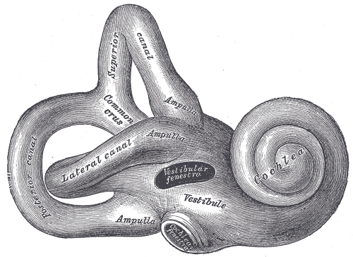 Right osseous labyrinth. Lateral view.